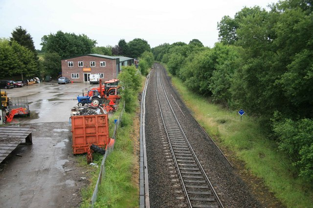 Waterloo - Exeter railway Semley station site